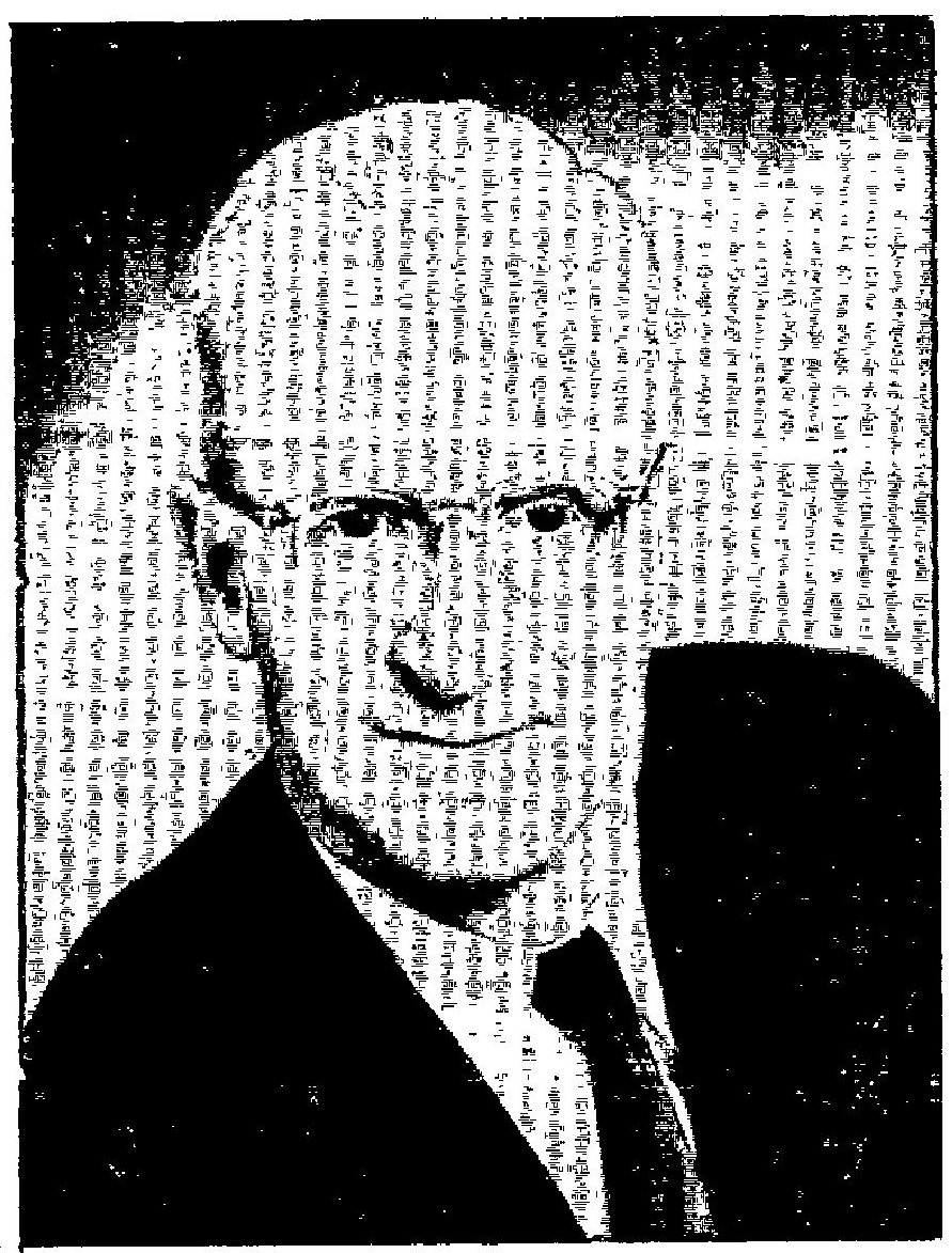 Photo of Kenneth Goff from the FBI Files.